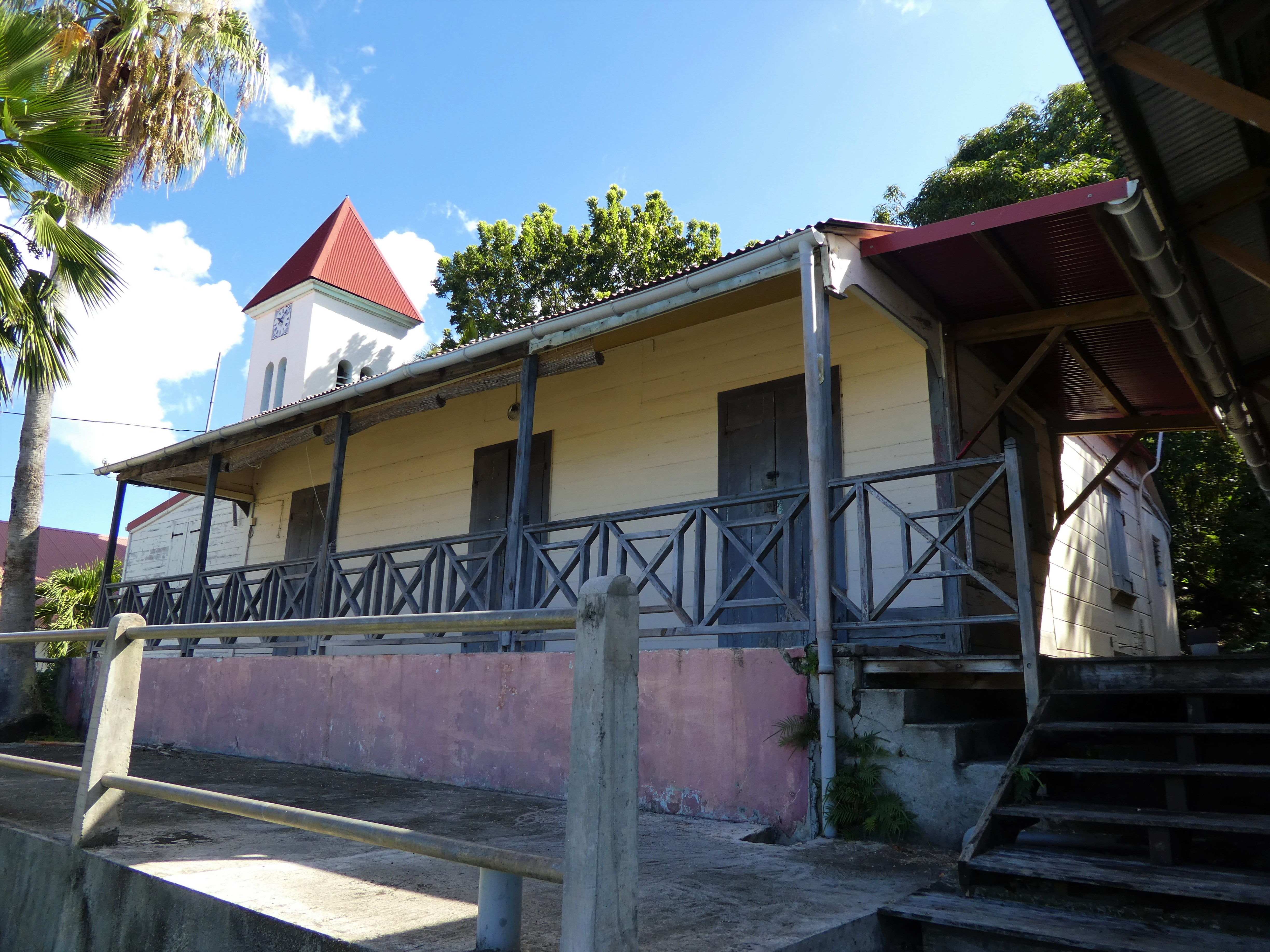 View of the Presbytery at Deshaies (Guadeloupe, ca. 1850s), which serves as the police station in the TV series "Death in Paradise."